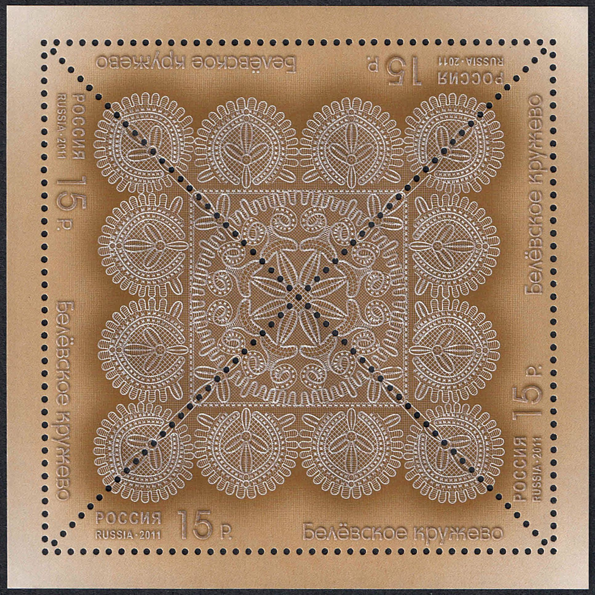 Decorative and Applied Arts of Russia (ongoing stamp series, issue I). The lace-making. The Belyov lace, a bobbin lace made in Belyow town, Tula Oblast. The stamp of Russia, 15.00 Rubles, 12 December 2011, PTC Marka Catalogue No 1550, Michel No 1782. The triangular stamps were issued in the sheets of small format: 4 stamps in 1 sheet. Coated paper. Offset printing, intaglio printing. Perforation: comb 11½. Size of the stamp: 50×50×70 mm (35×70 mm). Size of the stamp sheet: 80×80 mm. Print run: 320,000 stamps.